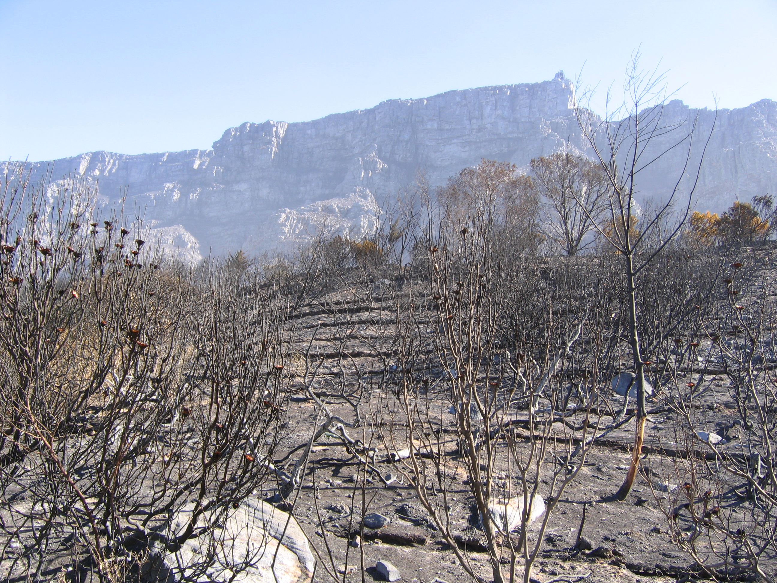 View from the top of Molteno street, towards Table Mountain (Cape Town, South Africa) after it burned in January 2006. Taken by myself on 2006/01/31.